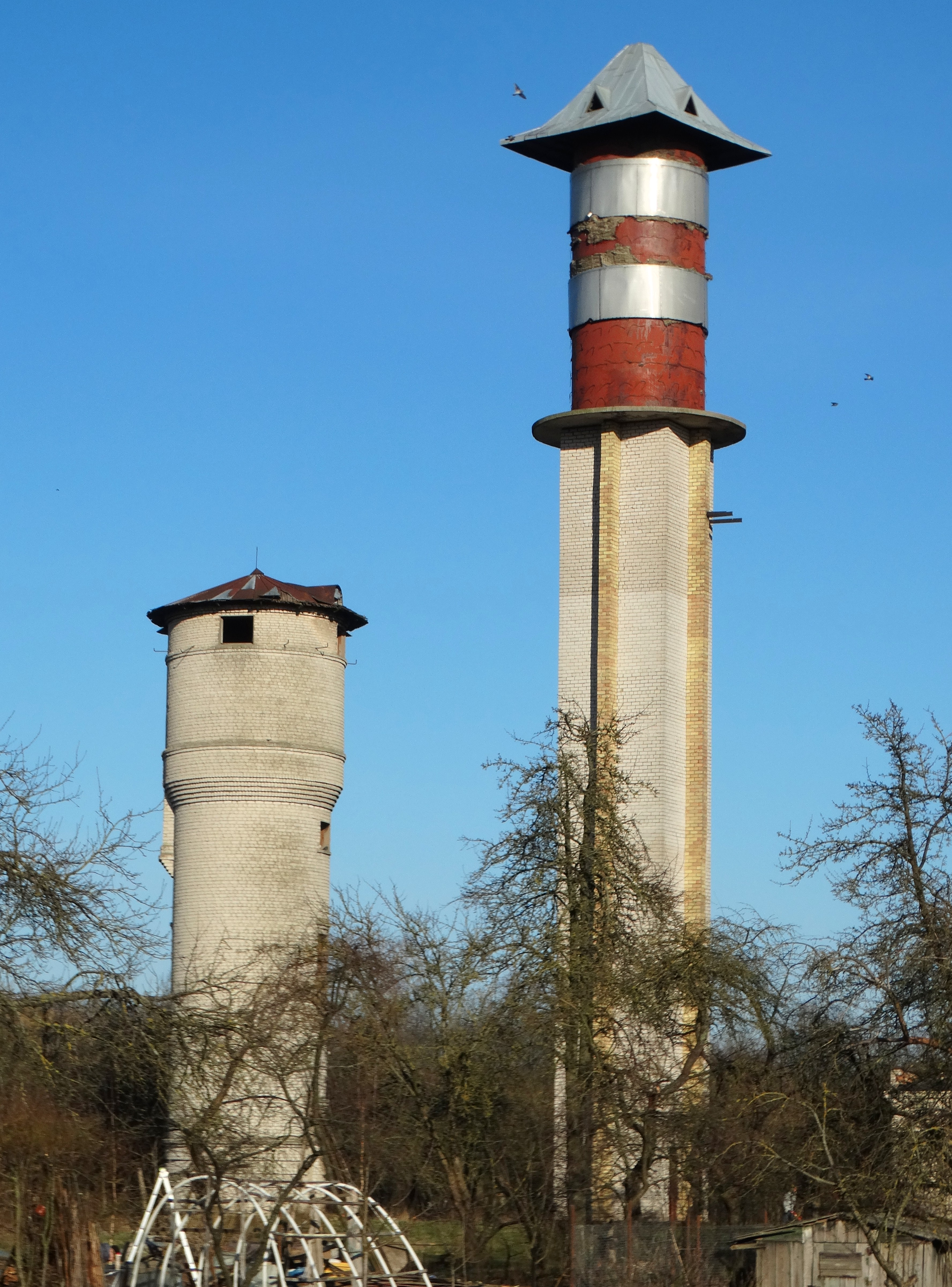 Vilainiai near Kėdainiai, Lithuania